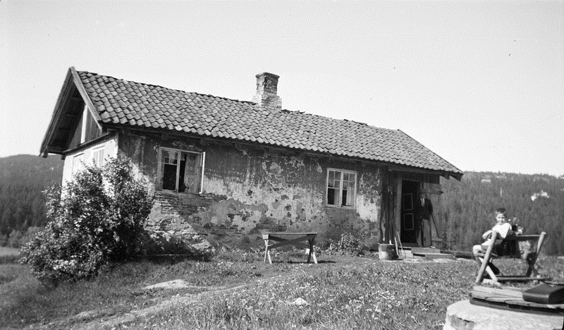 Hovseter